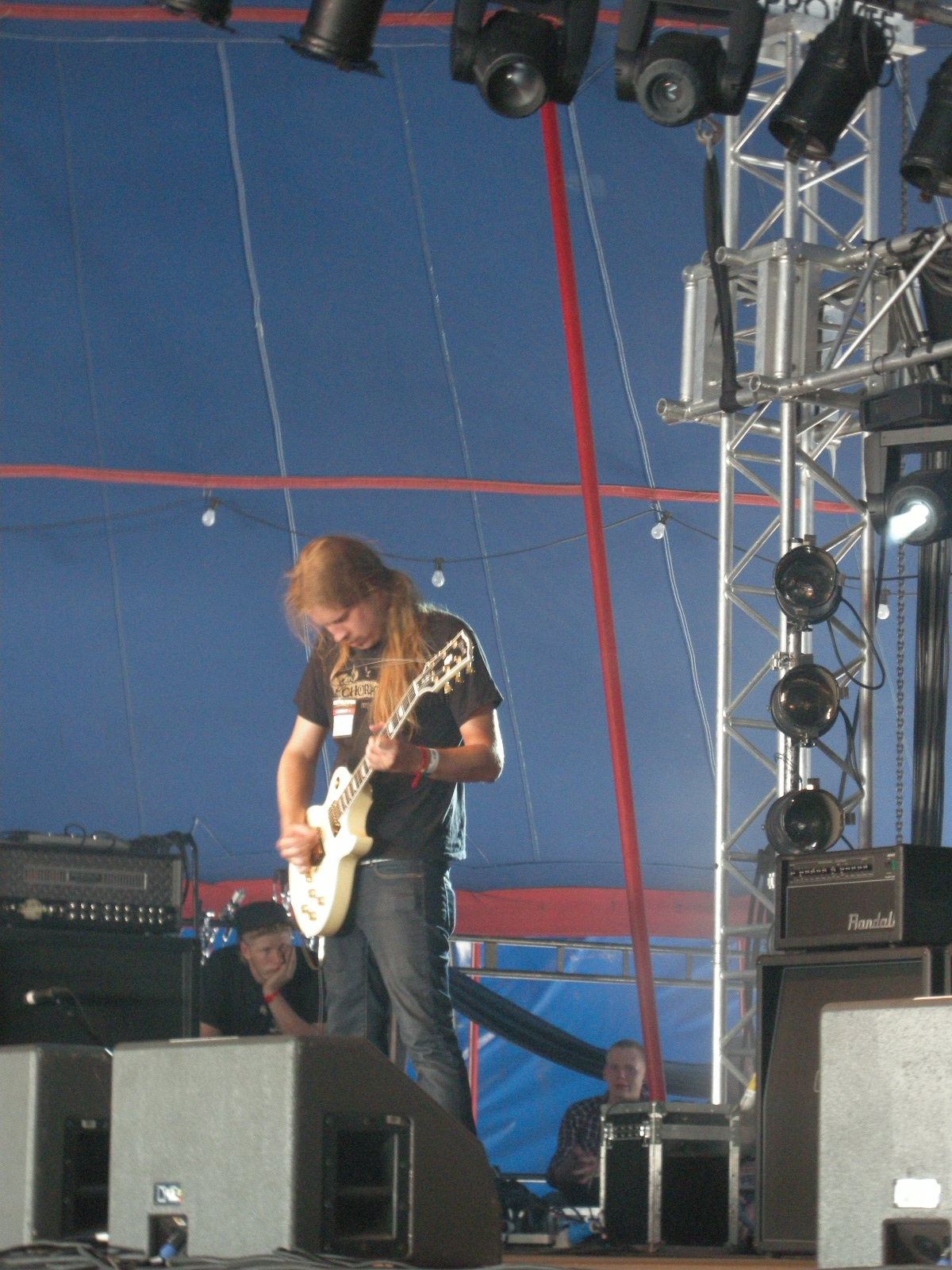 David Johansson, singer and guitar player of the Swedish metal band Kongh, performing at Metaltown 2009